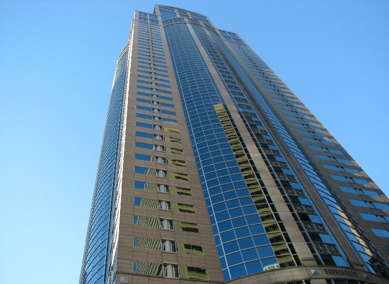 Washington Mutual HQ in Seattle, WS